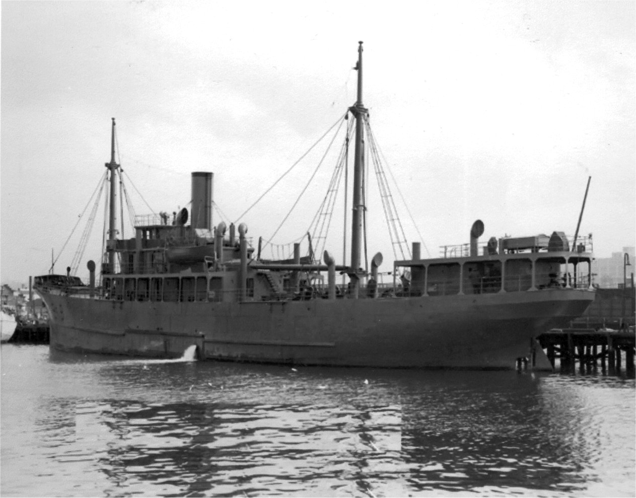 USS YAG-9 moored pierside, date and location unknown. US Navy photo